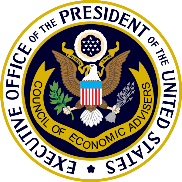 Seal of the Council of Economic Advisers